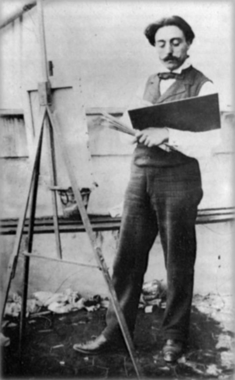 Photograph of Josep Dalmau i Rafel, circa 1896